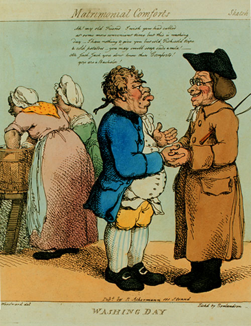 "Ah! My old Friend I wish you had called at some more convenient time but this is washing day — I have nothing to give you but cold Fish, cold Tripe & cold potatoes — you smell soap suds a mile! Ah Jack, Jack you don't know these Comforts! you are a Bachelor!"